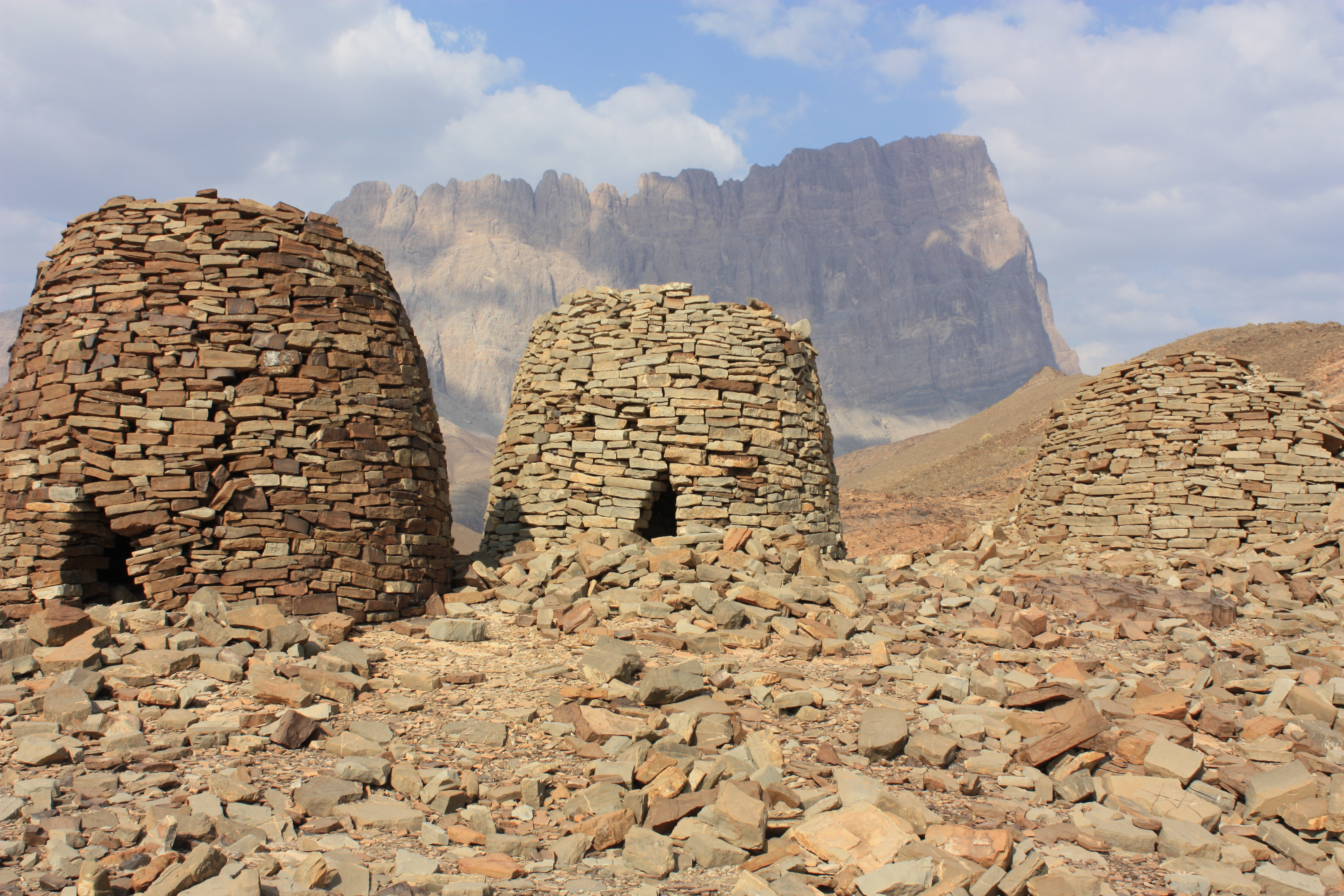 Al Ayn, beehive tombs of Qubur Juhhal